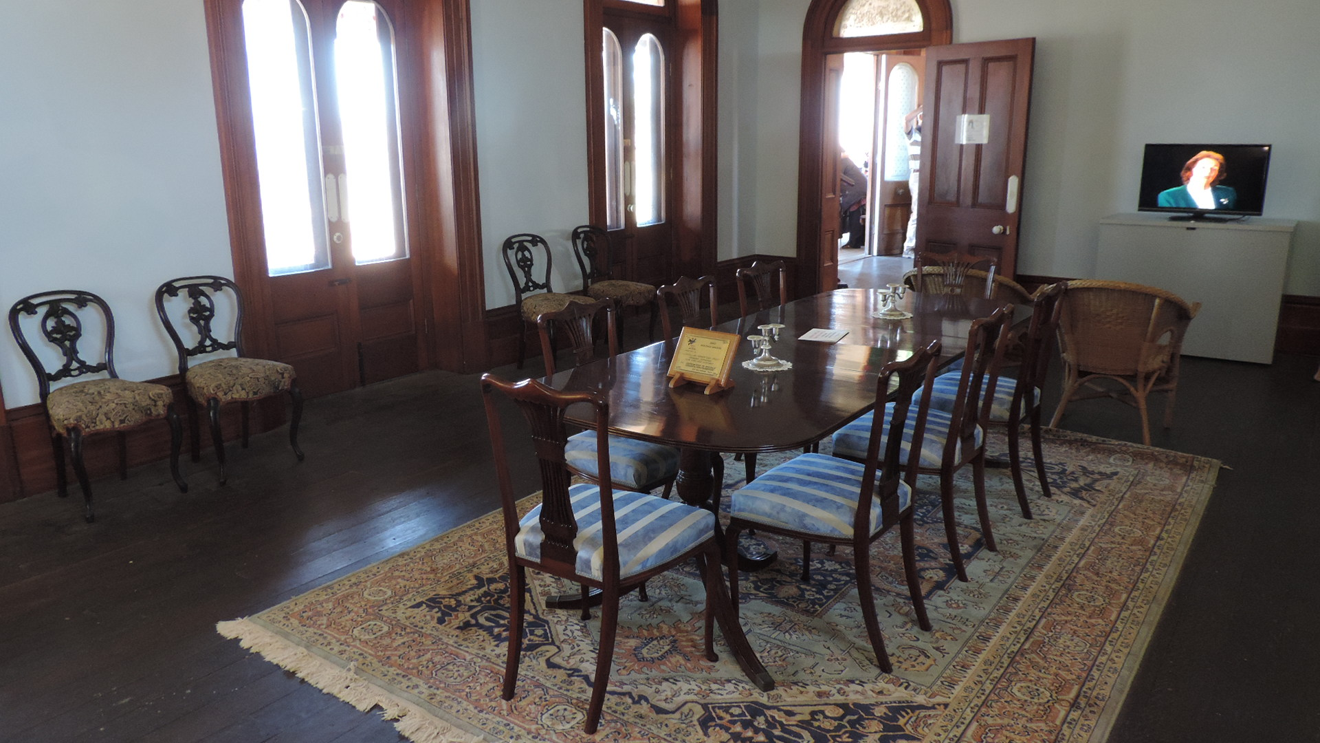 Glengallan Homestead, dining room, 2015